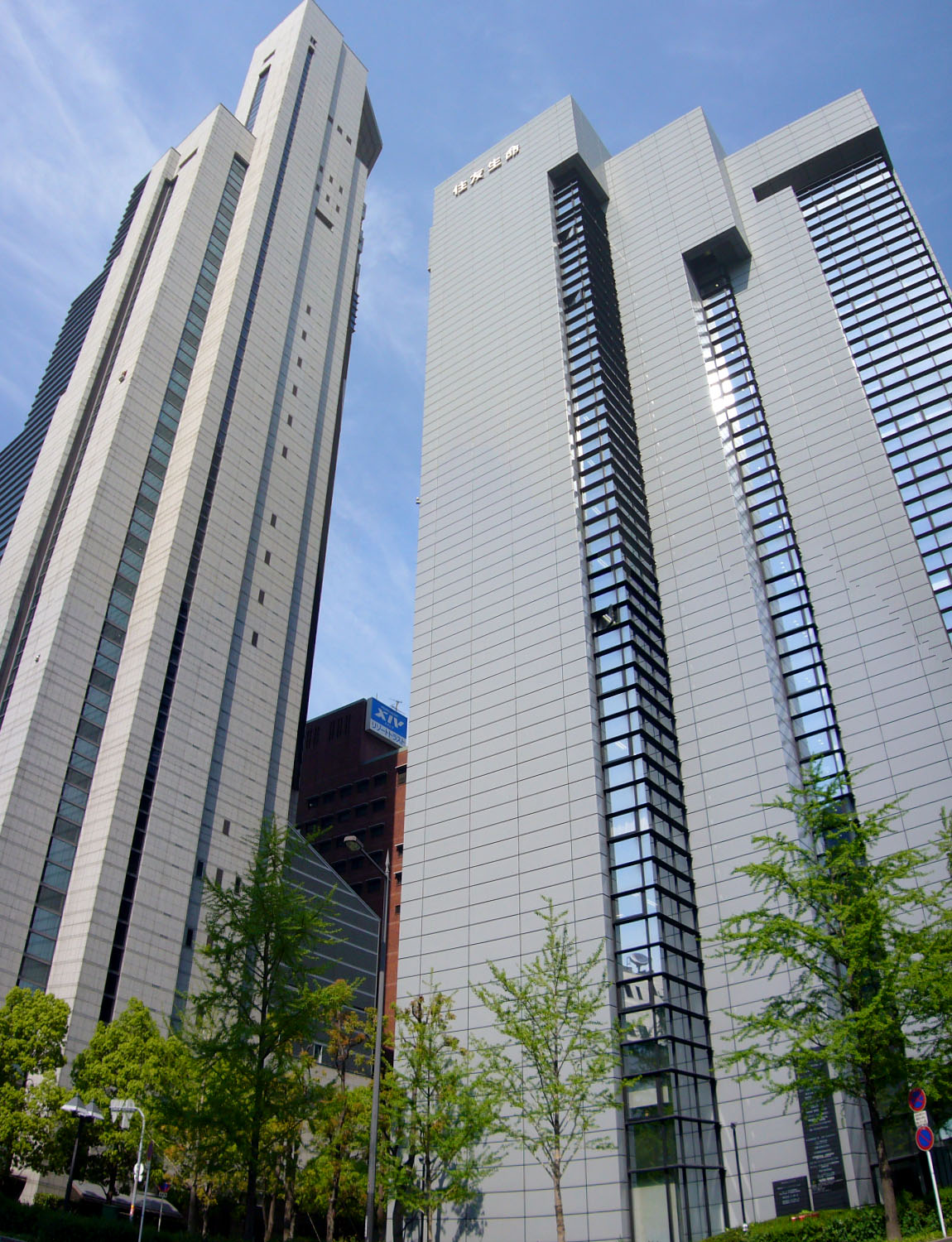 Nissay Dowa General Insurance Co.,Ltd. Head Office (Phoenix Tower) and Sumitomo Life Insurance Company's Midosuji Building in Osaka, Japan